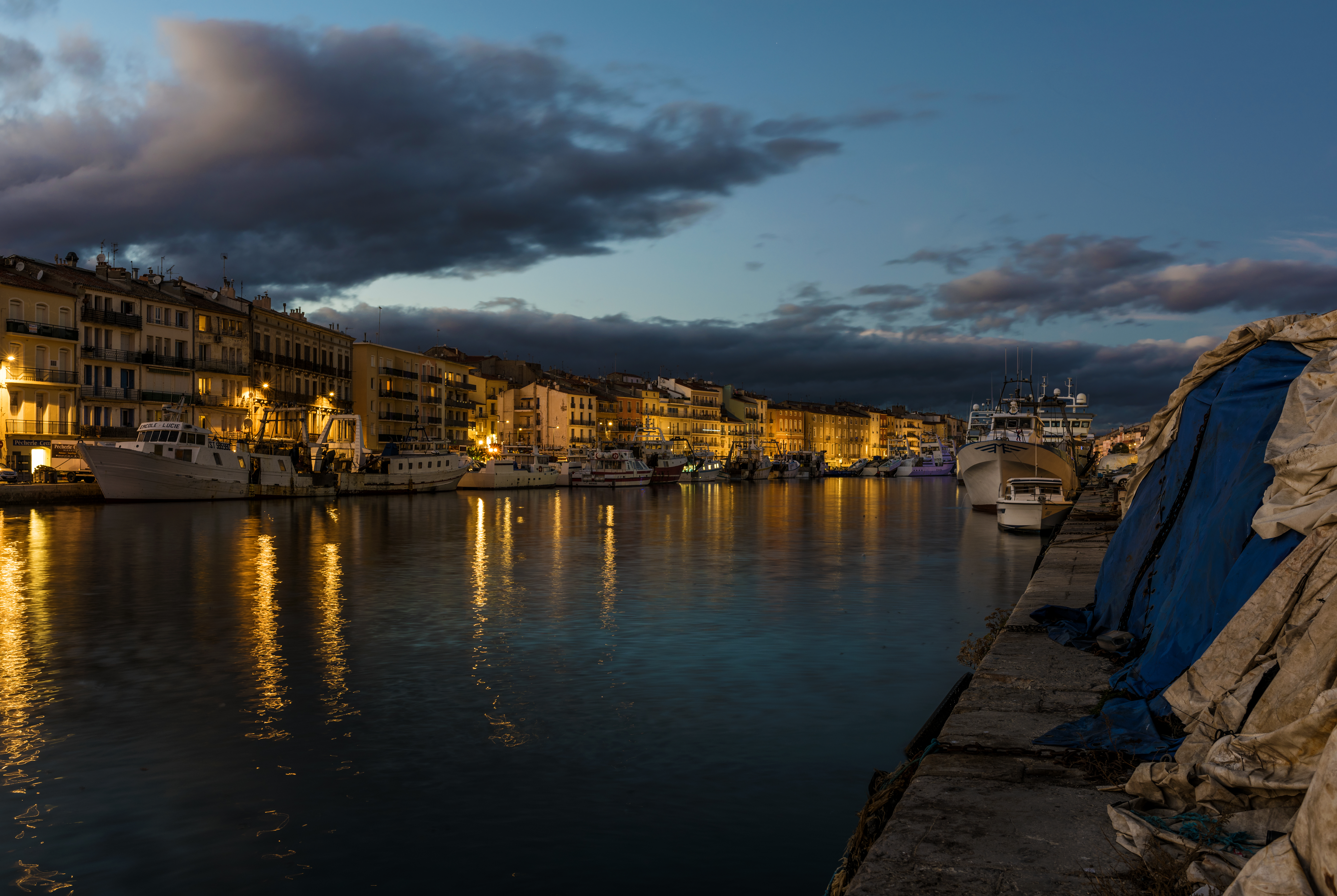 The Canal of Sète (Canal de Sète) and the Général Durand embankment where are moored tuna seiners end other fishing ships, just before dust. Sète, Hérault, France